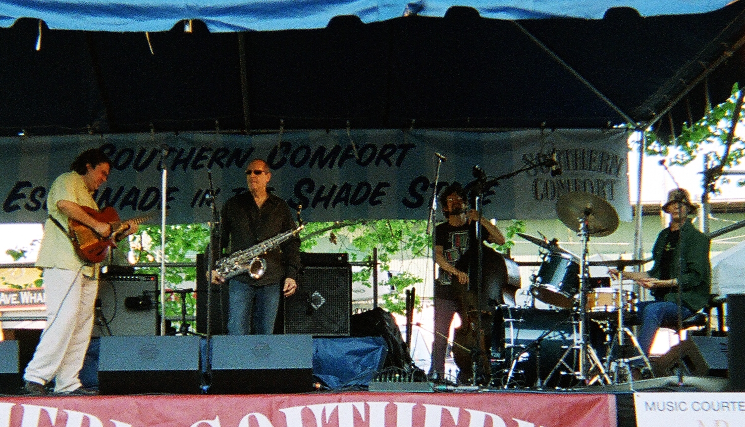 French Quarter Festival, New Orleans, Louisiana. Astral Project.